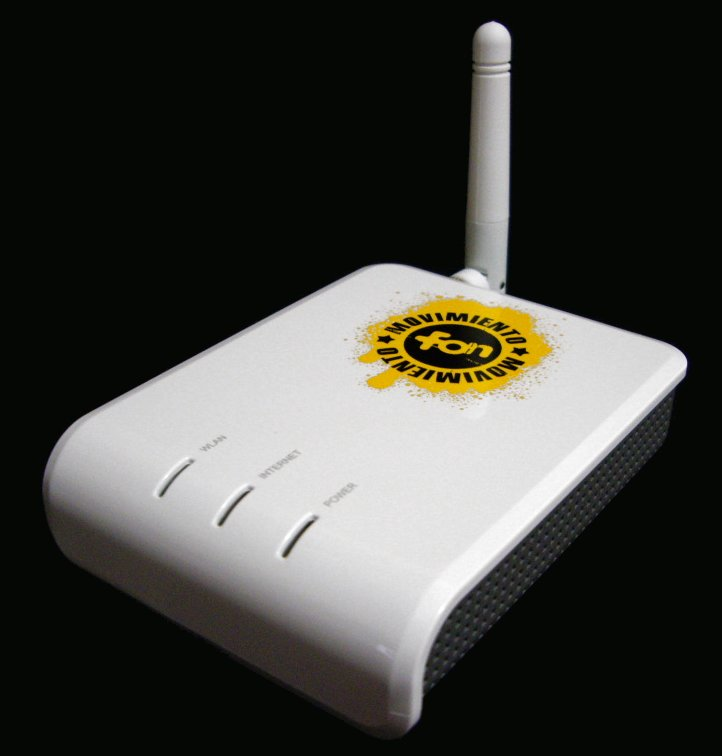 Wireless Router: La Fonera